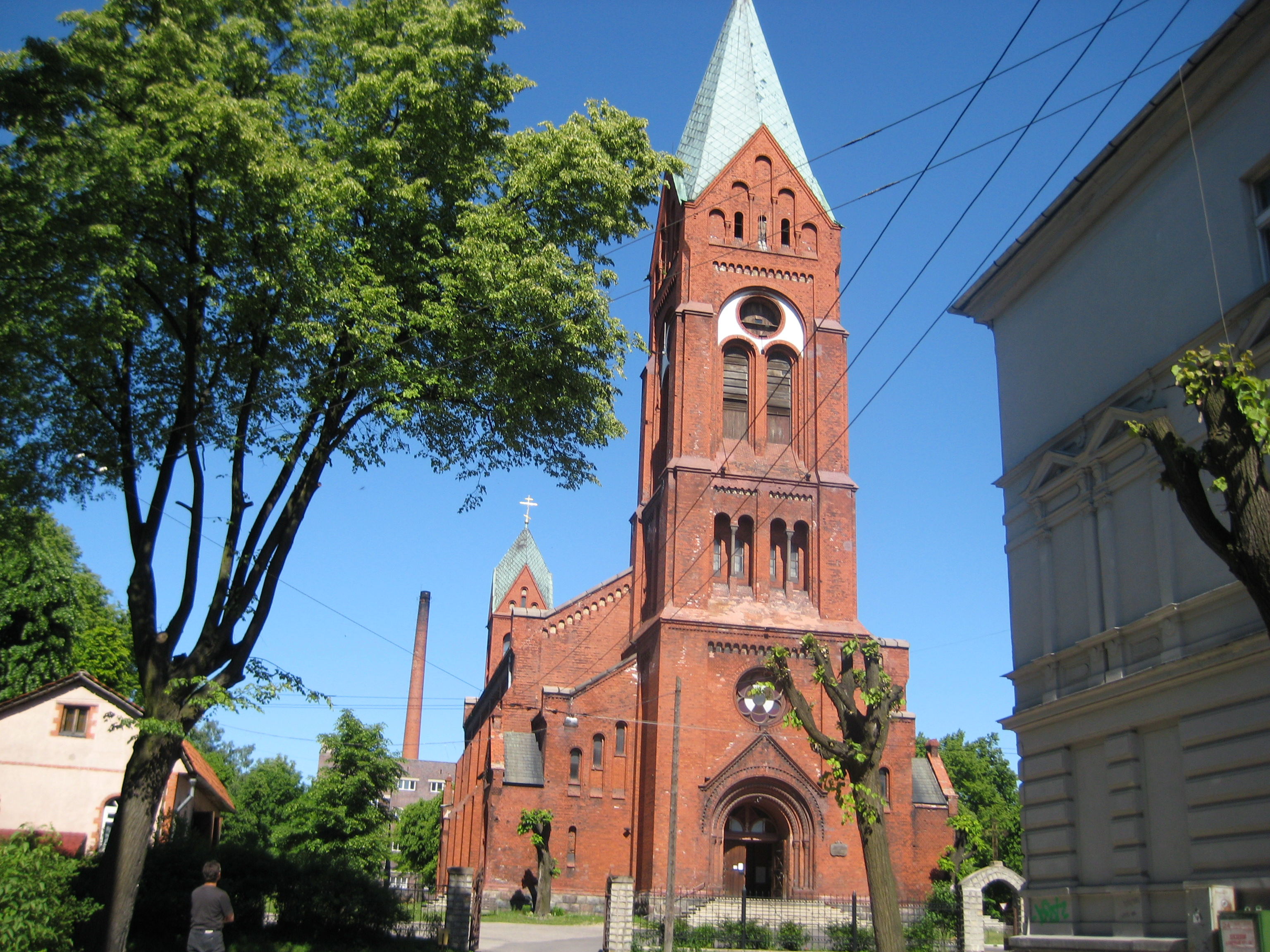 Church in Insterburg, East Prussia; situation in the year 2008